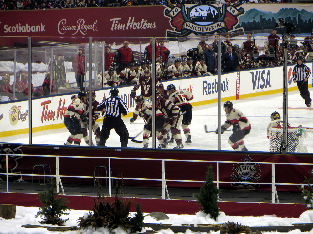 Game action at the 2014 Heritage Classic